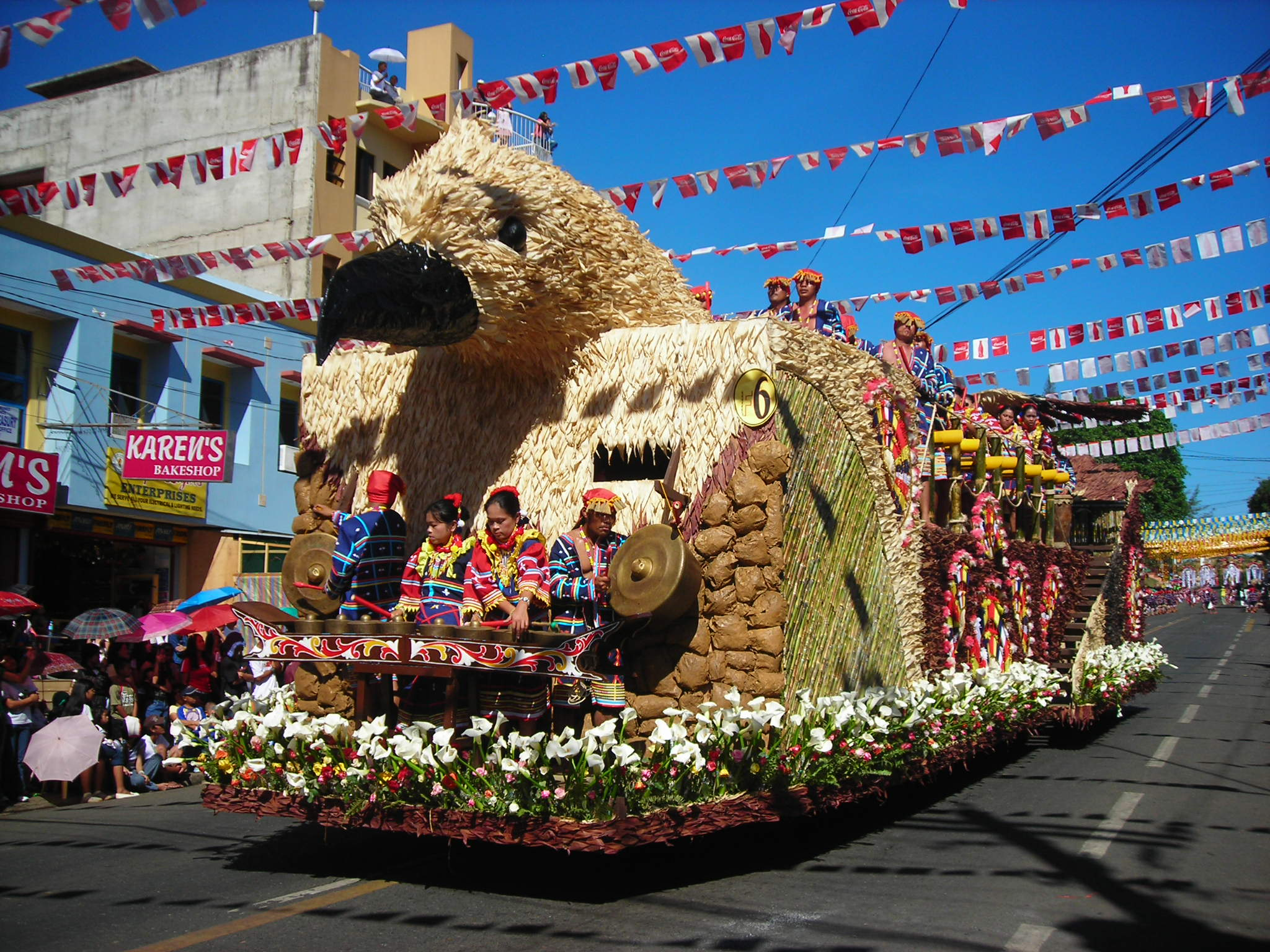 Parade float of the municipality of Kitaotao during the Kaamulan 2007 street dancing competition.